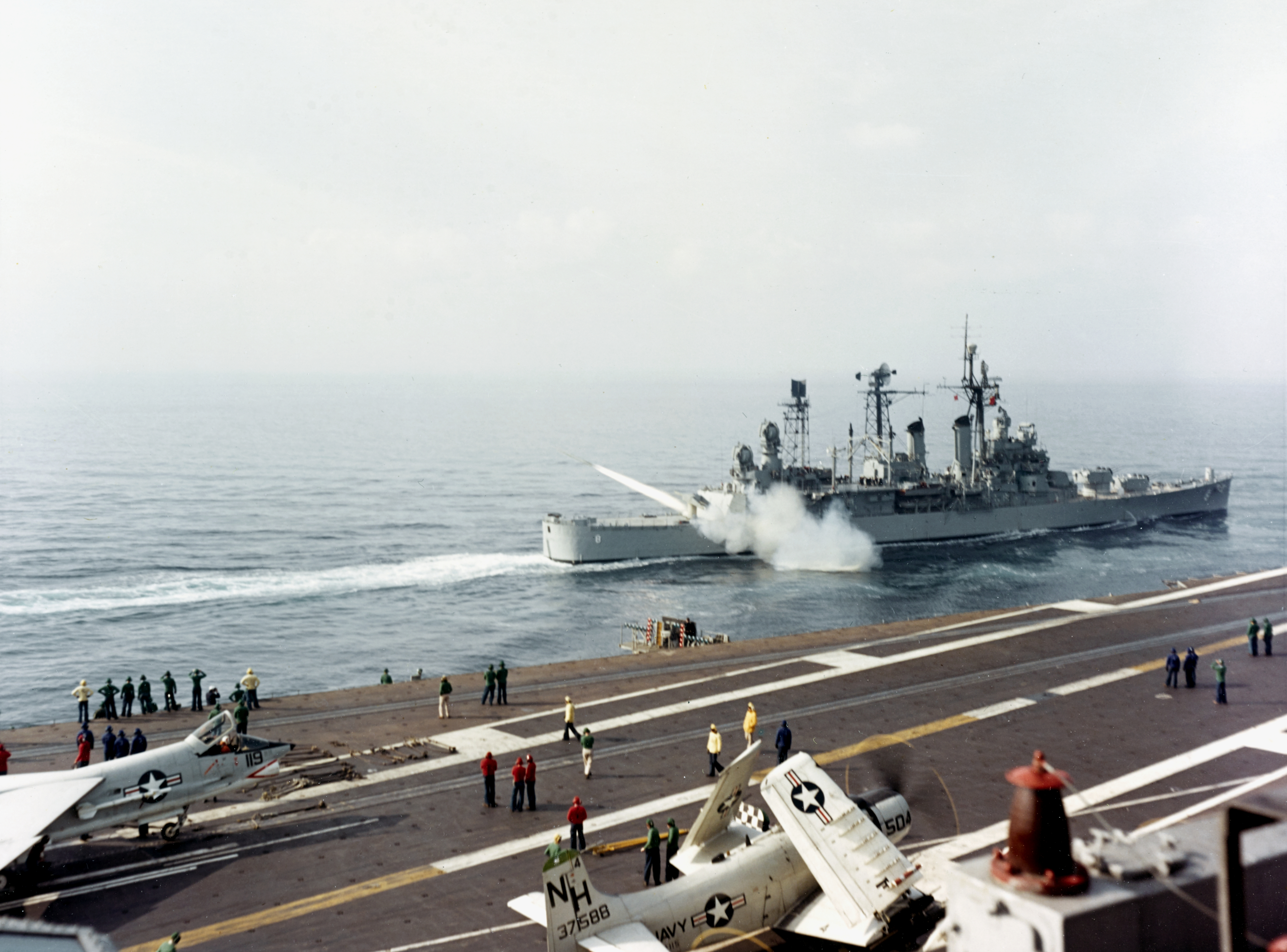 The U.S. Navy guided missile cruiser USS Topeka (CLG-8) fires a "Terrier" missile on 18 November 1961 during weapons demonstrations for the Chief of Naval Operations, Admiral George W. Anderson. The photo was taken from the aircraft carrier USS Kitty Hawk (CVA-63). A Douglas AD-6 Skyraider (BuNo 137588) of Attack Squadron 115 (VA-115) "Arabs" prepares for launch. A Vought F8U-1 Crusader of Fighter Squadron 142 (VF-142) "Fighting Falcons" is partly visible on the left.